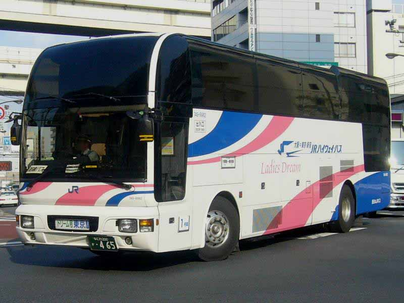 FHI Asterope coach with Volvo B10M chassis in Japan. Nishinihon JR Bus operator. 登録番号： なにわ200か・465 西日本ジェイアールバス(West JR Bus)所属 car no. 749-9982 レディースドリーム大阪号用